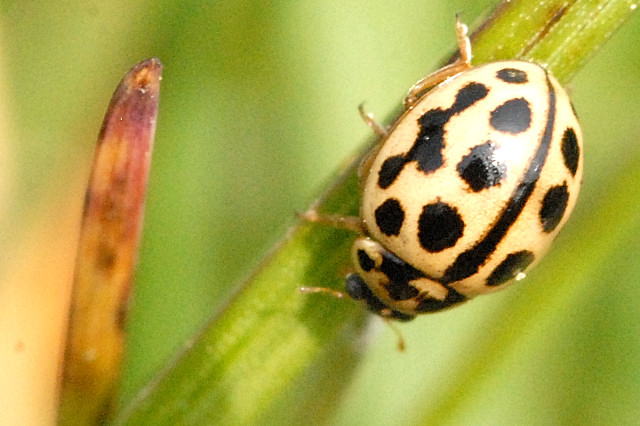 Tytthaspis sedecimpunctata from Commanster, Belgian High Ardennes .